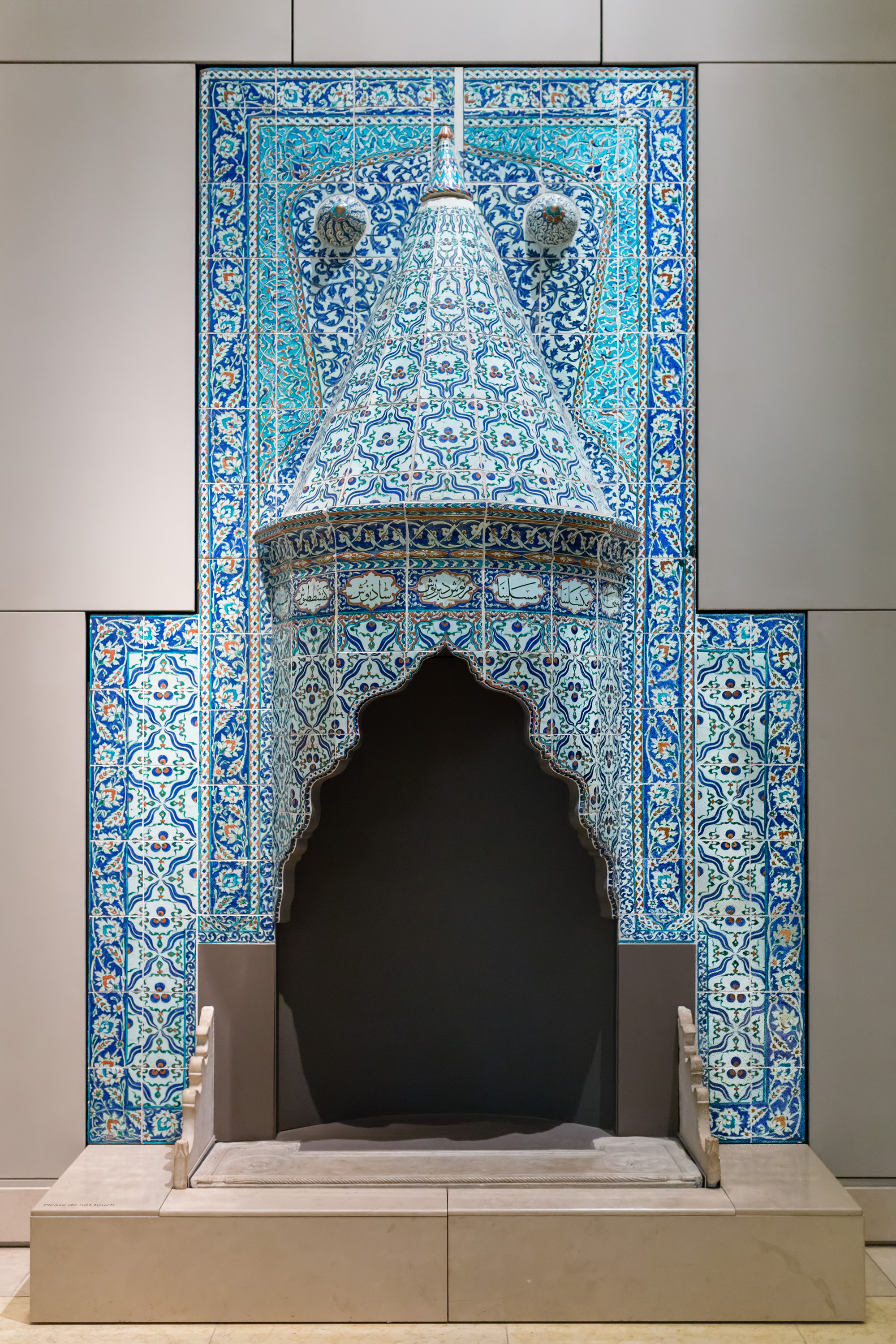 Tilework Chimneypiece at the V&A Museum in London. From Turkey, probably Istanbul Dated 1731 The names around the hood are those of the seven sleepers. Persecuted under the Roman Emperor Decius, these Christian men took refuge in a cave. They fell asleep, waking centuries later under Christian rule. The seven sleepers are mentioned in the Quran as an as an example of God's protection of the righteous. Their names were therefore used to invoke that protection. Fritware with under-glaze decoration. Collection ID: [none 703-1891]